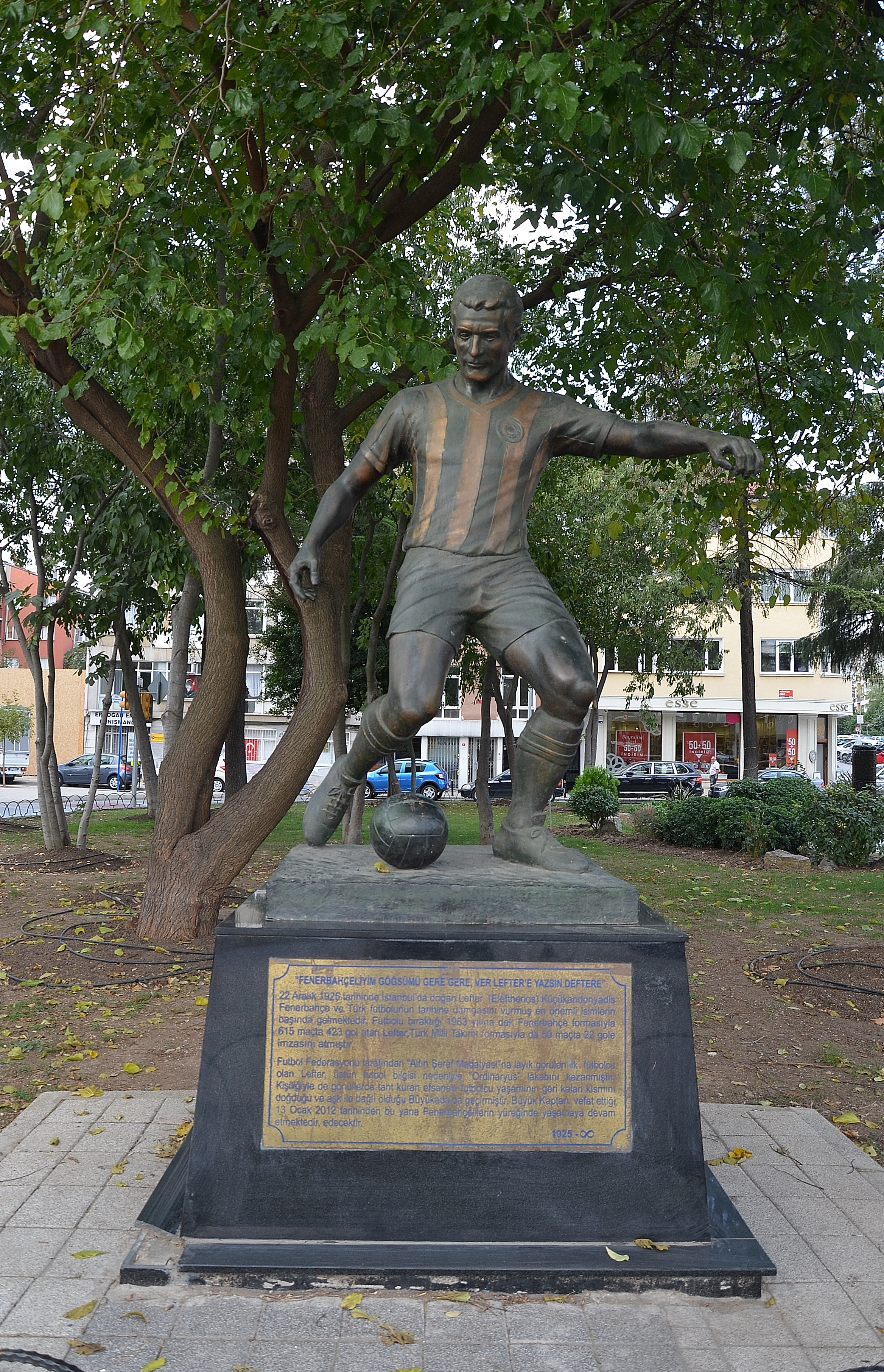 Statue of Fenerbahçe S.K. footballer Lefter Küçükandonyadis, Kadıköy İstanbul